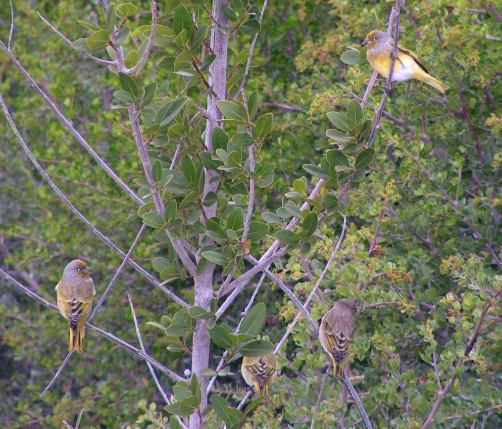 Cape Canaries (Serinus canicollis), South Africa